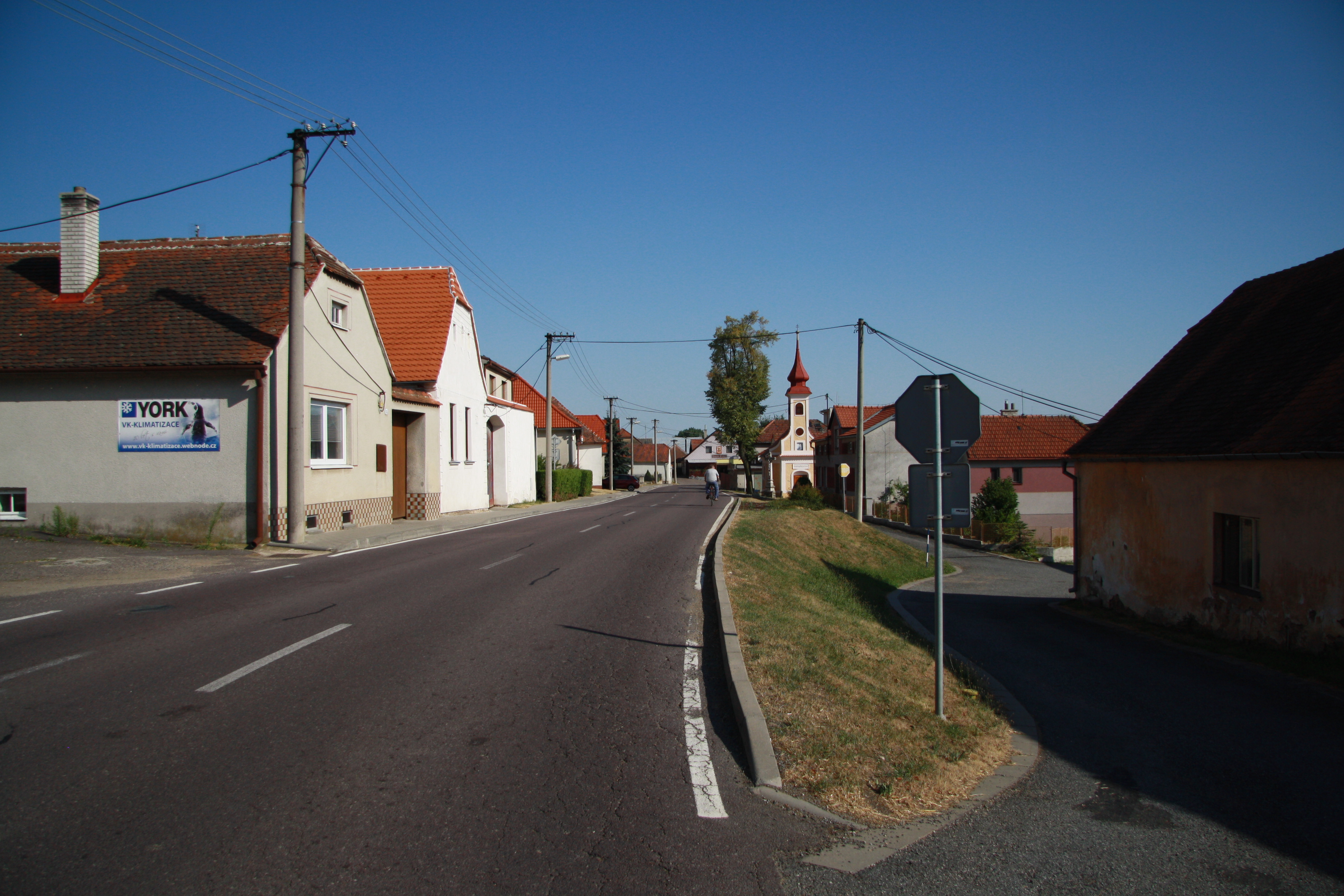 Center of Třebelovice, Třebíč District.